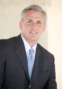 Kevin McCarthy, member of the United States House of Representatives.